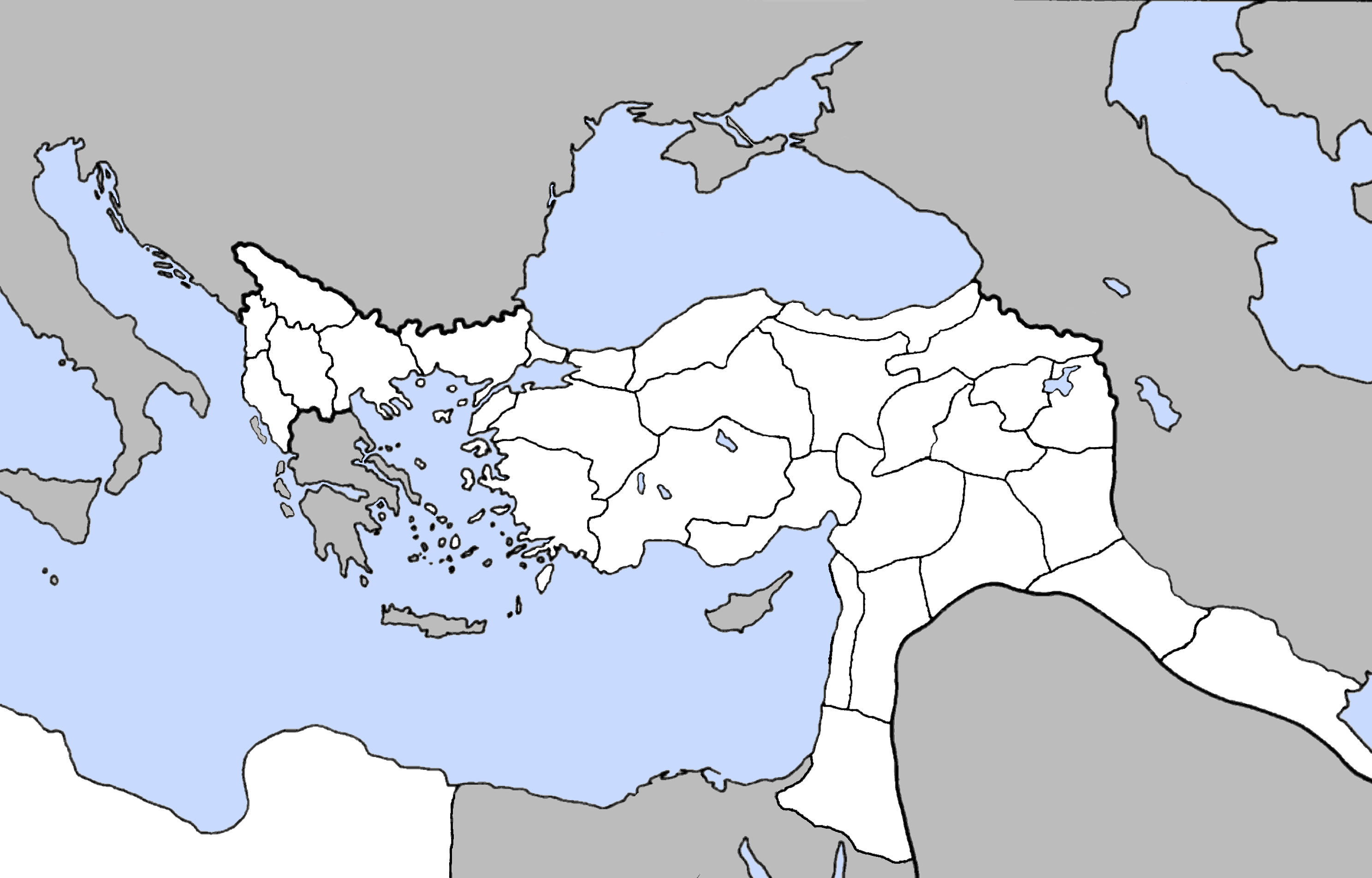 XY Vilayet, Ottoman Empire (1900). Source: An Economic and Social History of the Ottoman Empire, Volume 2 at Google Books By Suraiya Faroqhi, Bruce McGowan, Donald Quataert, Sevket Pamuk